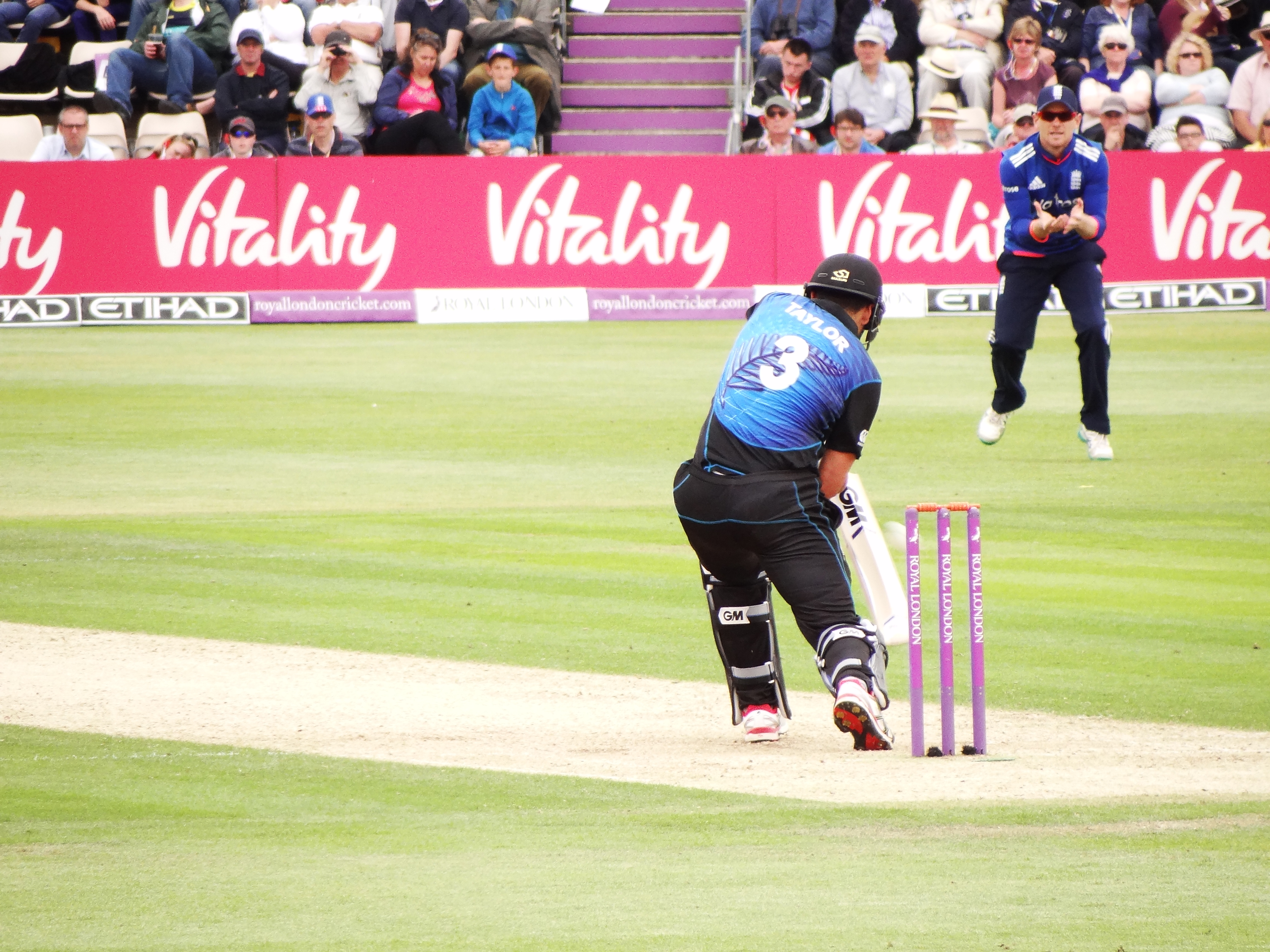 Third ODI between England and New Zealand in 2015